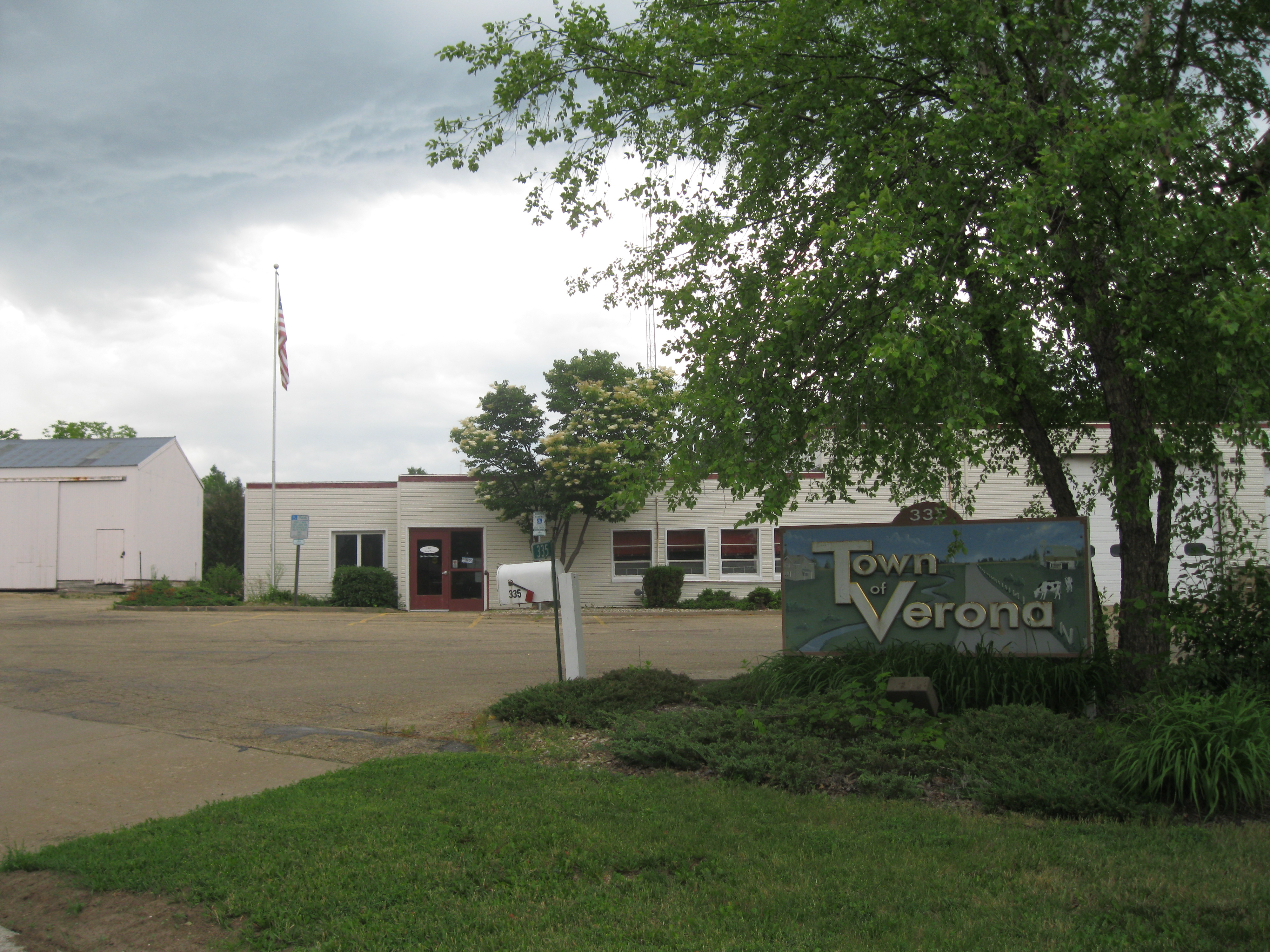 Town hall and sign in Town of Verona, Wisconsin.